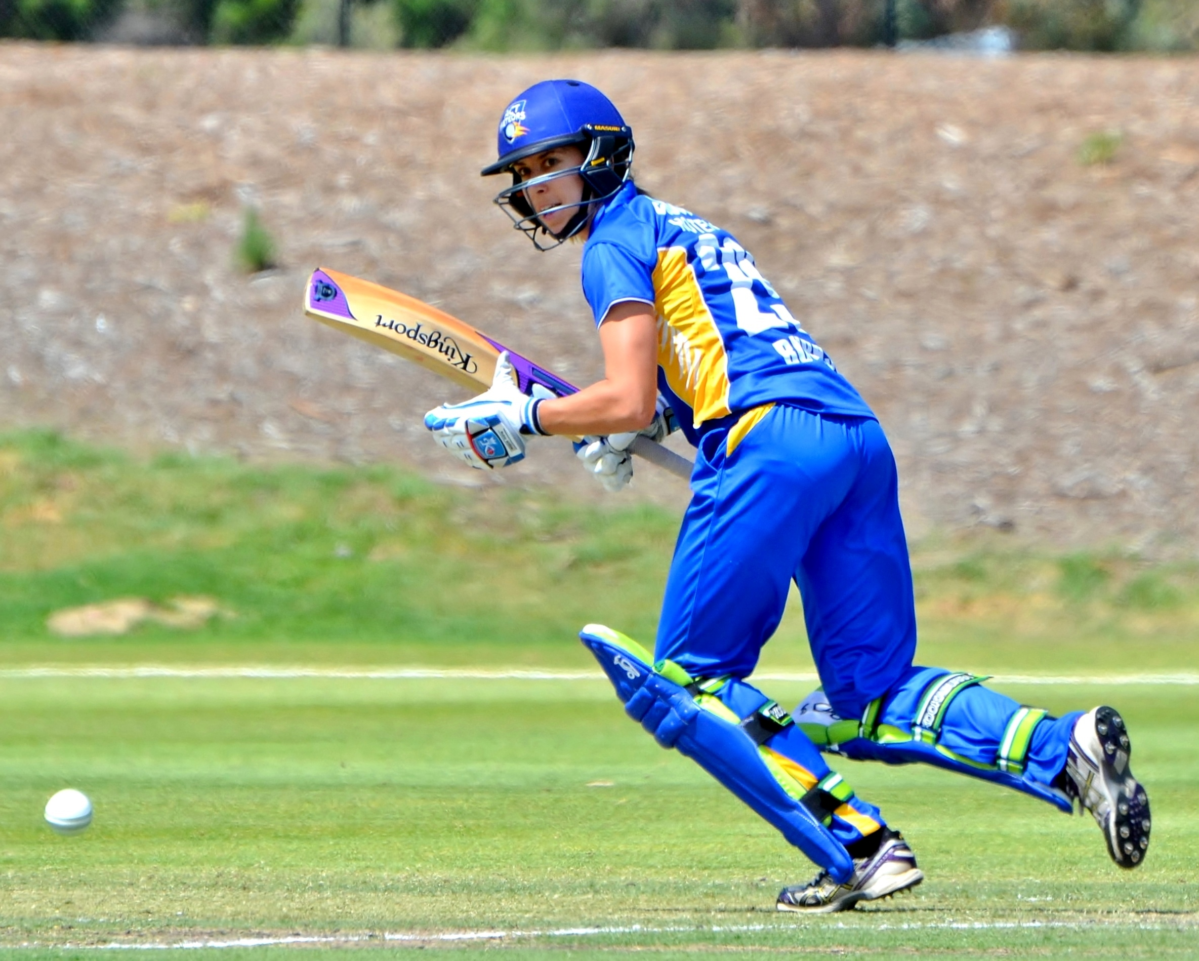 All-rounder Erin Burns batting for the ACT Meteors against the New South Wales Breakers, in a WNCL top of the table clash at Murdoch University Sports Oval in Perth.